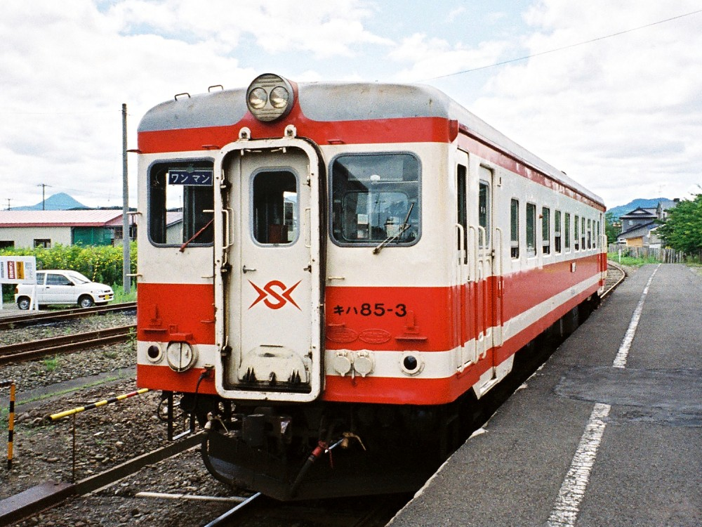 Shimokita Koutu Kiha85.